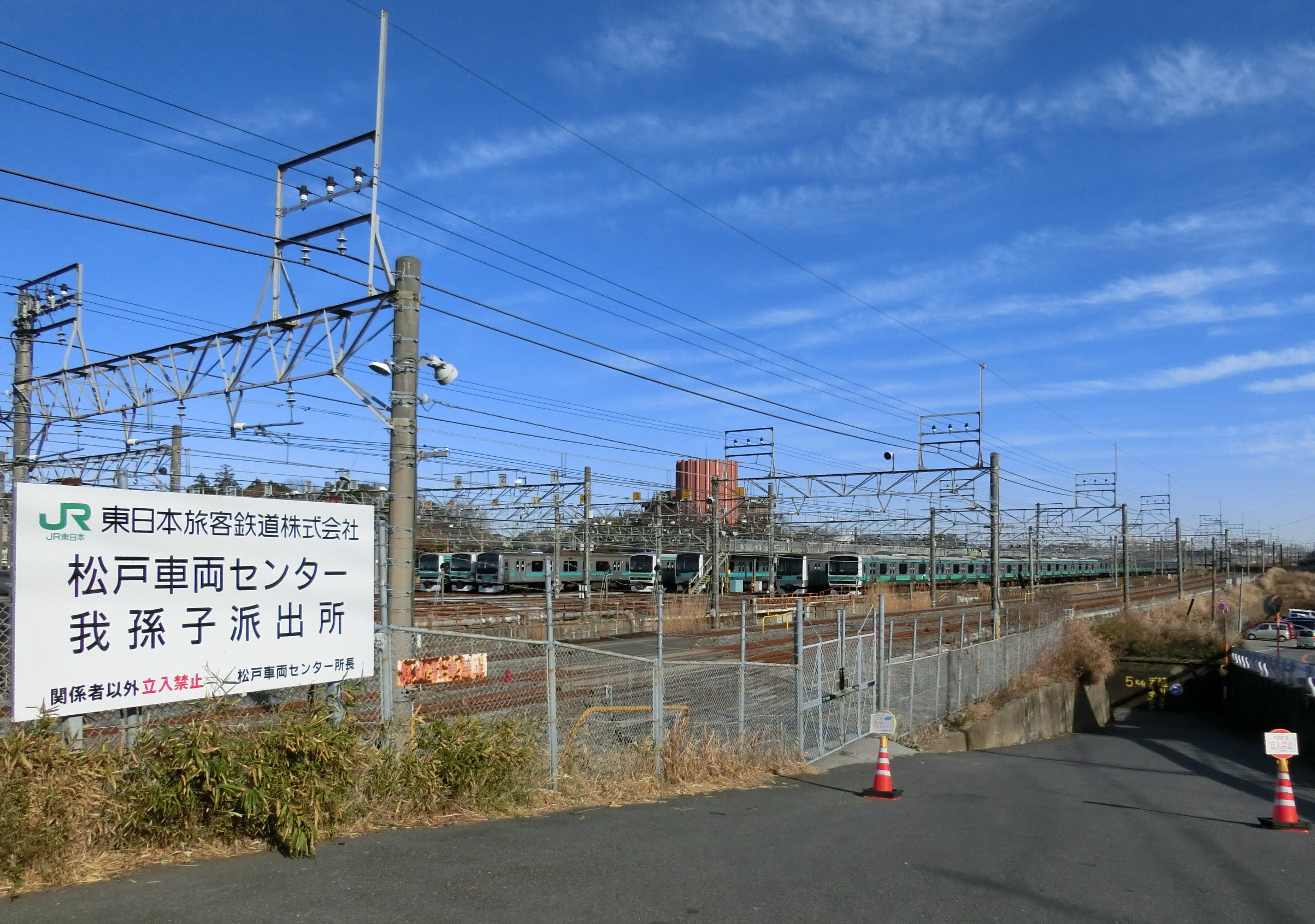 JR East Matsudo Rolling Stock Center Abiko Branch